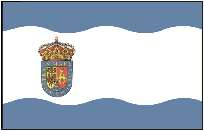 Flag of Marin municipality (Galicia, Spain)